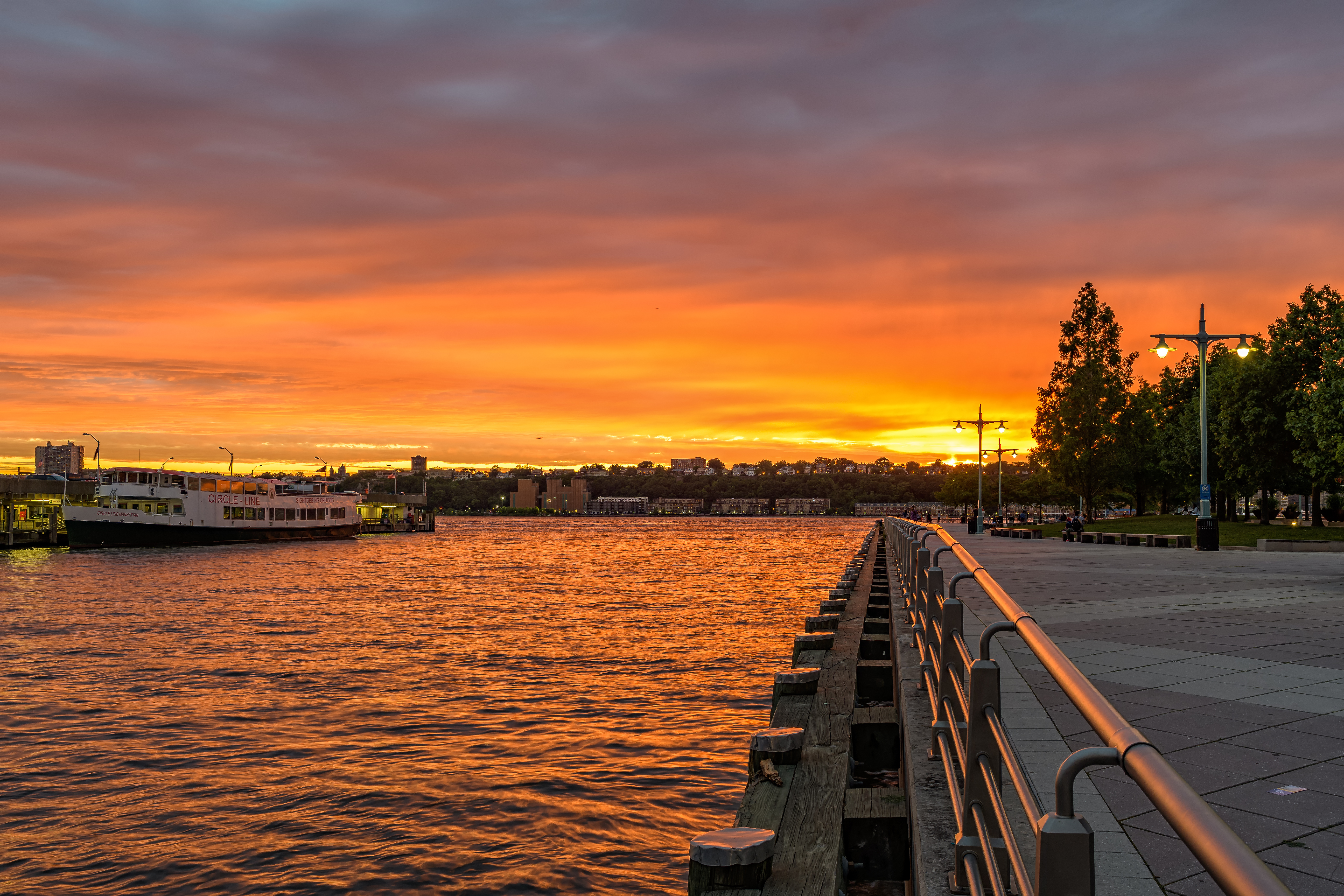 Sun sets at Pier 84 on the Hudson River in Manhattan, New York, NY. New Jersey Palisades in background, Circle Line boat and terminal to the left.